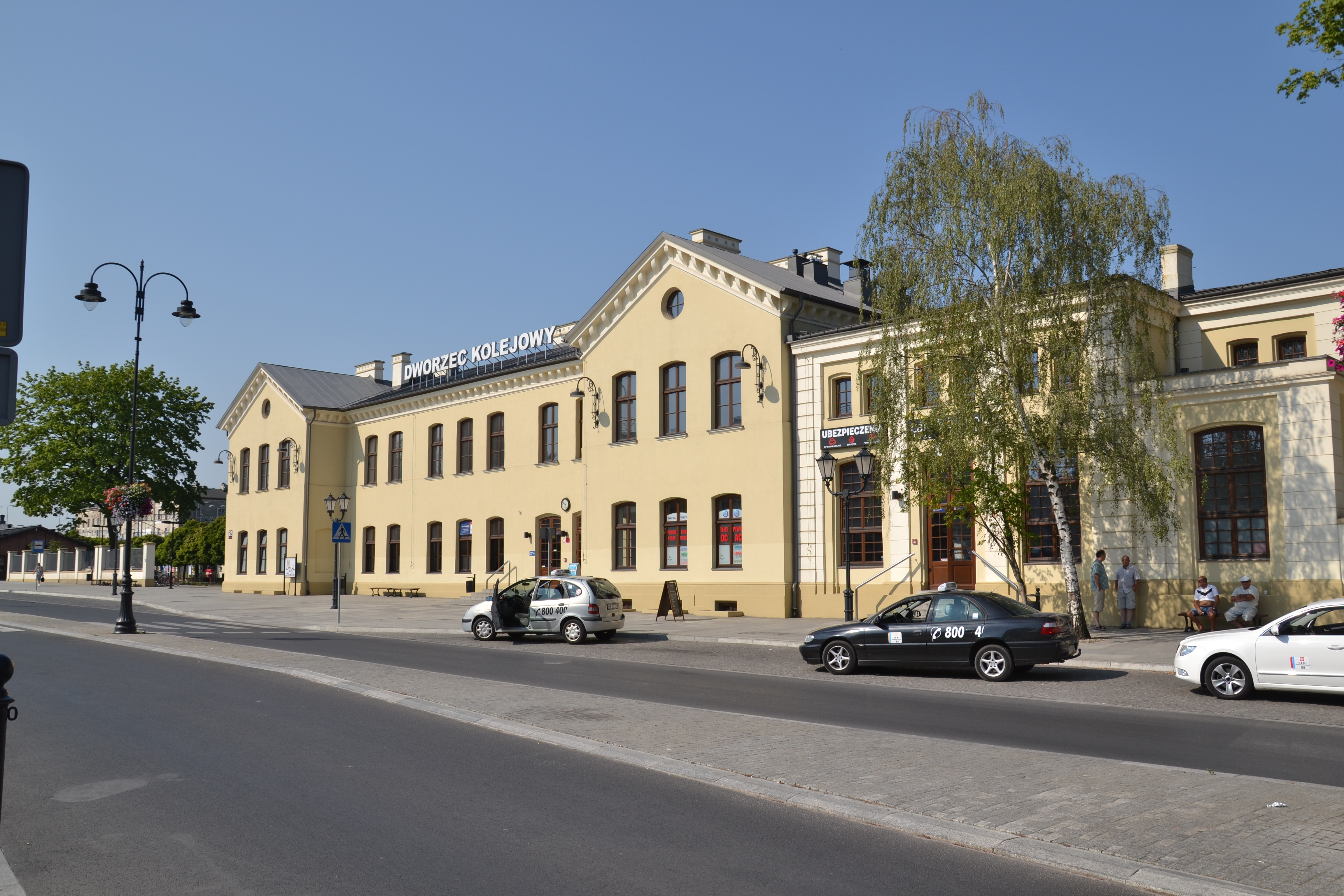 Widok dworca Piotrków Trybunalski od strony miasta This photo was taken during Railway Wikiexpedition 2015 set up by Wikimedia Polska Association in cooperation with Fundacja Grupy PKP. You can see all photographs in category Wikiekspedycja kolejowa 2015.